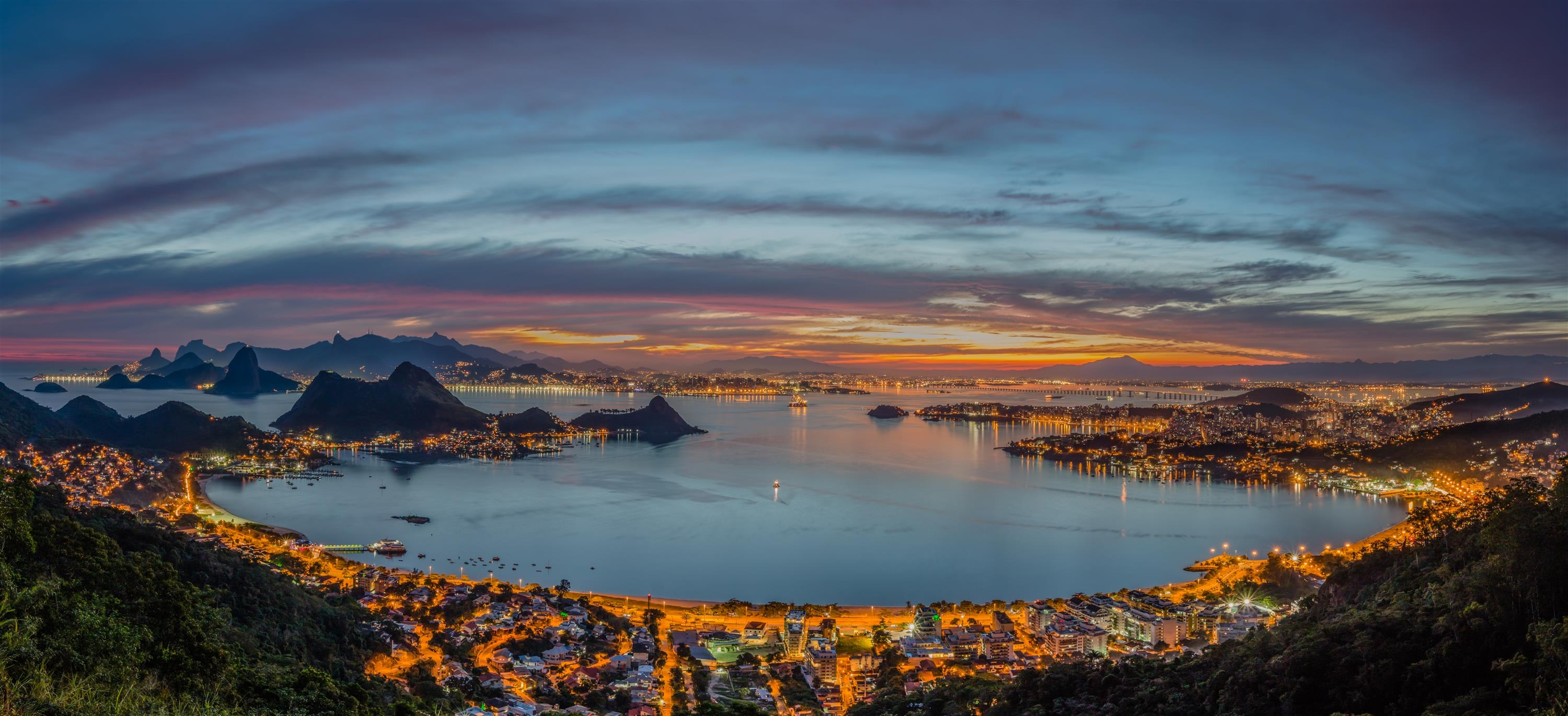 View to Rio de Janeiro city from Niterói - RJ, Brazil.